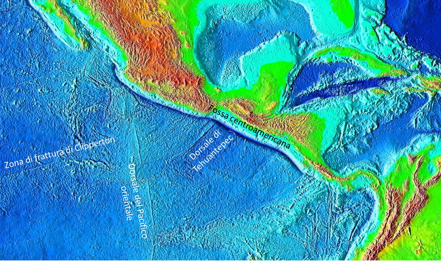 This picture shows the location of the Tehuantepec Ridge.